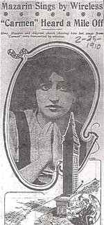 1910 advertisement in New York Times